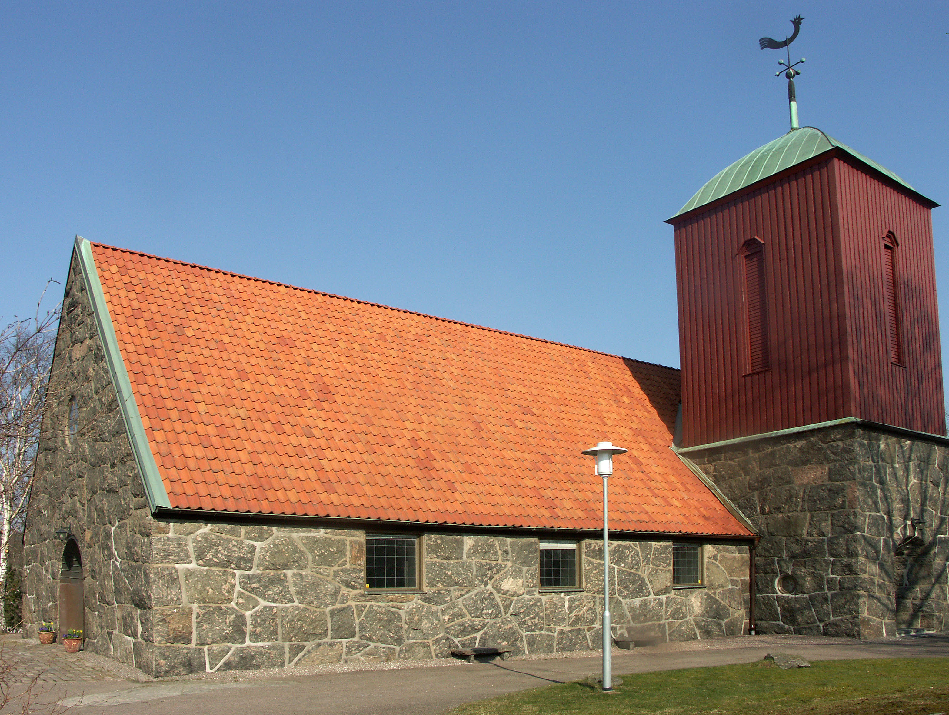 Utby kyrka in Gothenburg